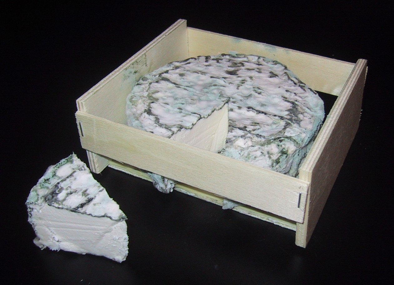 Selles-sur-cher cheese (France)